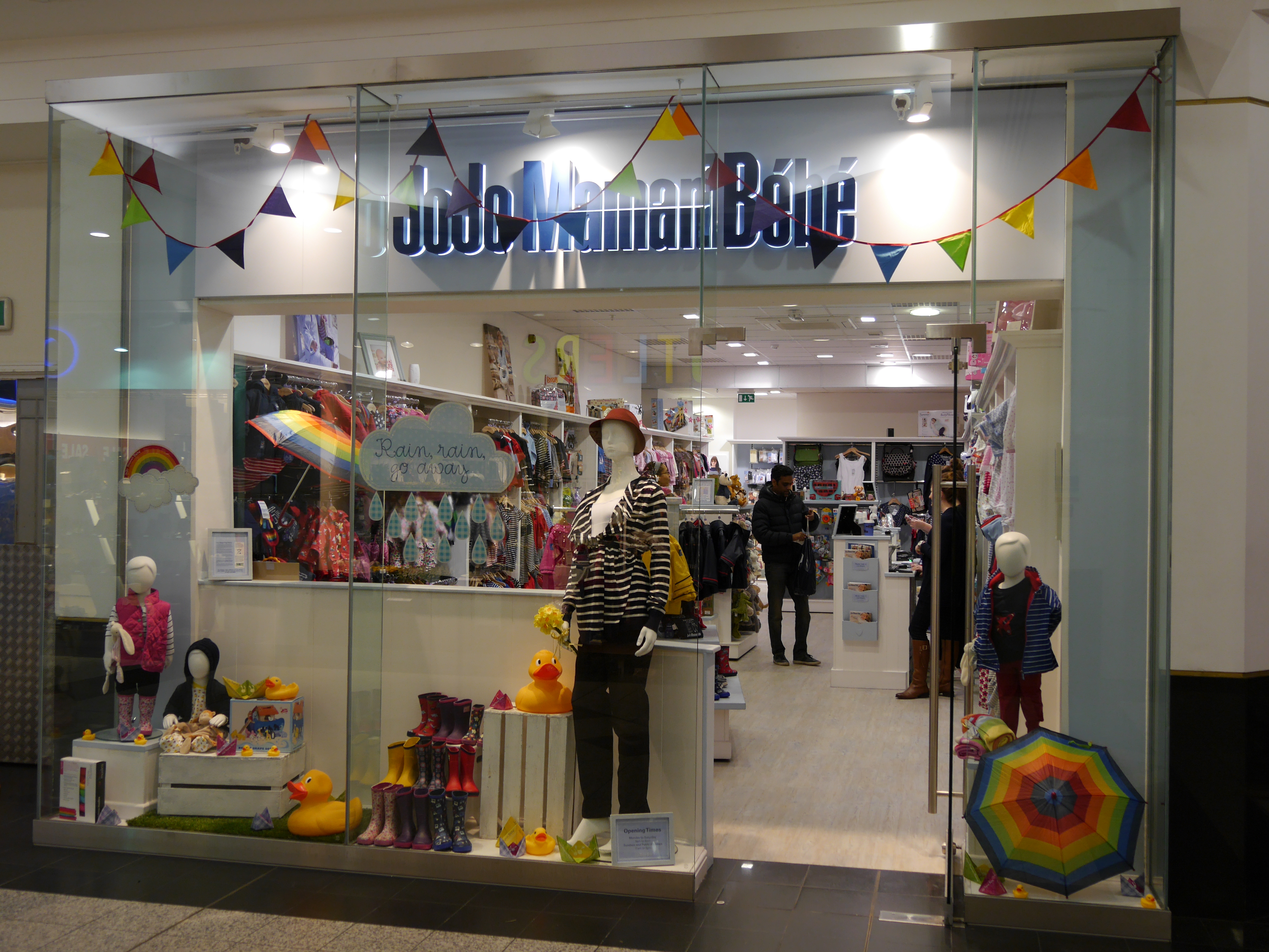 Putney Exchange